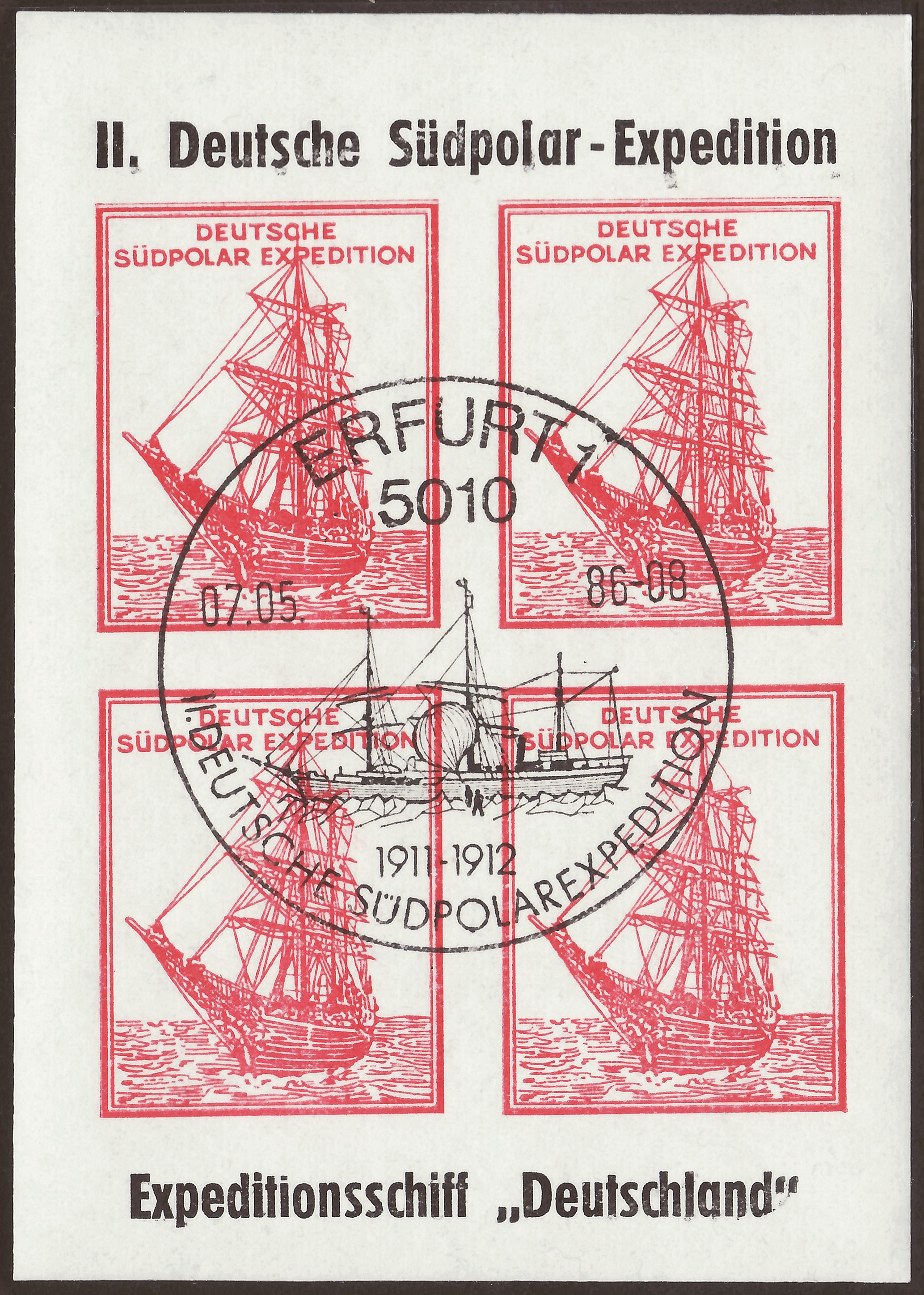 Stamp vignette (4 cinderella stamps imperforate se-tenant as souvenir vignette) of the German Democratic Republic in commemoration of the 75th anniversary of the "Second German Antarctic Expedition 1911-1912" (led by Wilhelm Filchner), stamp drawing with the then research ship "Deutschland"; postmarked by special postmark to the same event from Erfurt (then district capital), 7 May 1986 Cinderella stamp picture size (single cinderella stamp (red color)): 23.5 x 29.5 mm